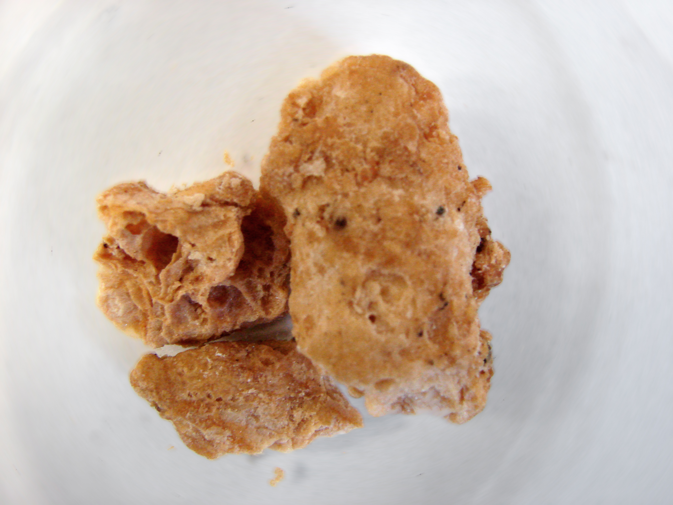 Manna, Fraxinus ornus